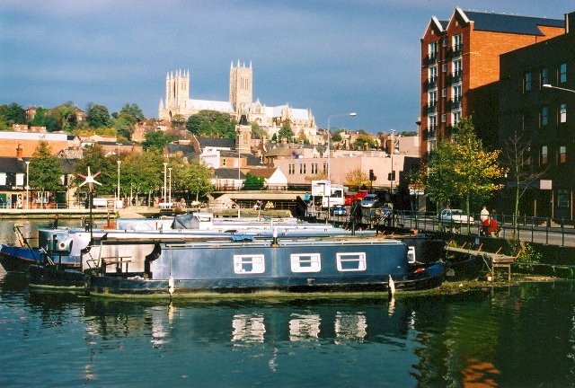 Brayford Pool.